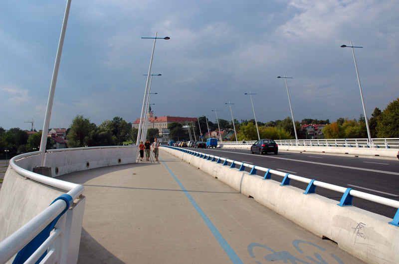 Zamkowy Bridge in Rzeszów, Poland